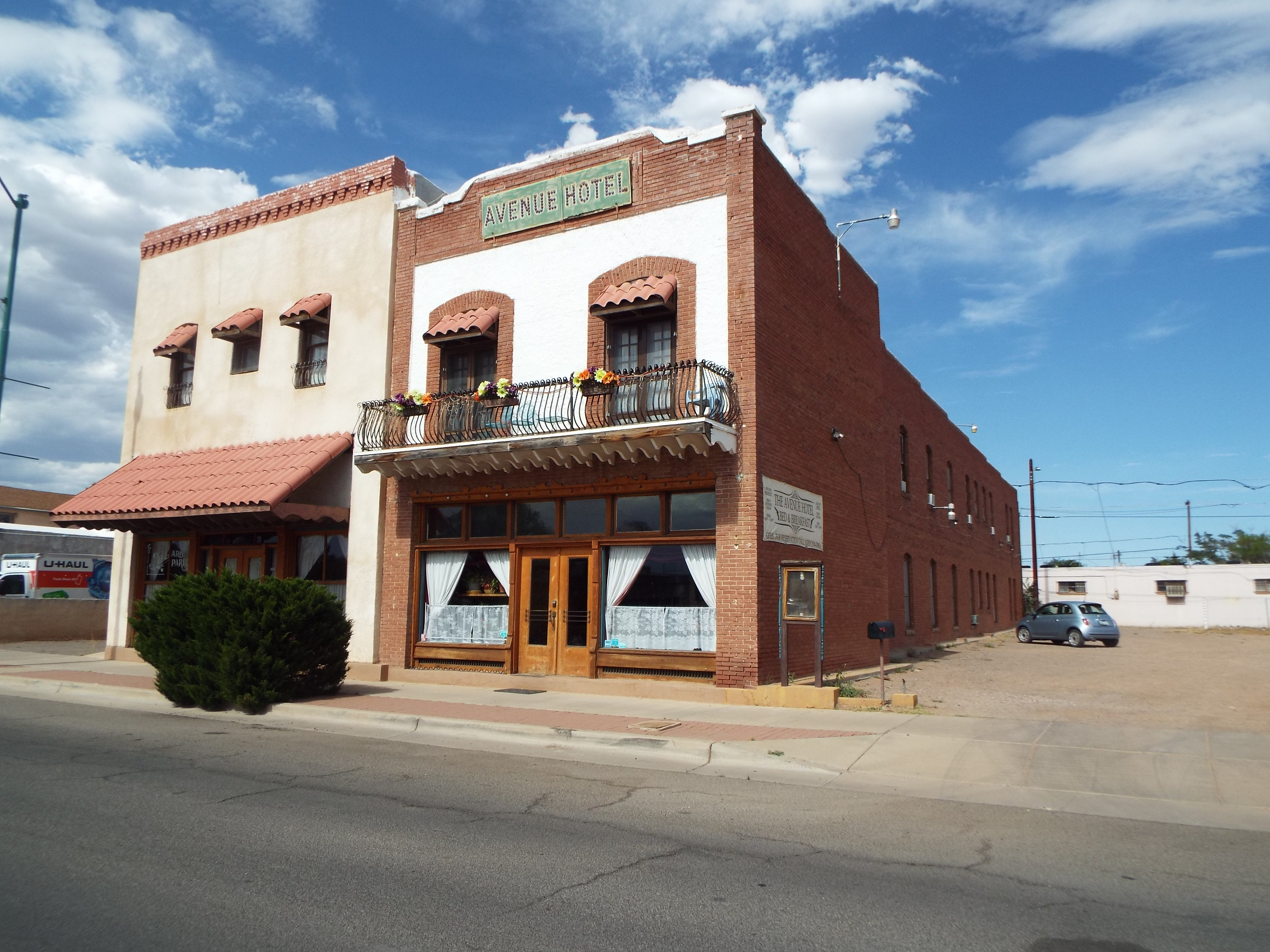 Two hotels in the Historic C Street in Douglas, Arizona